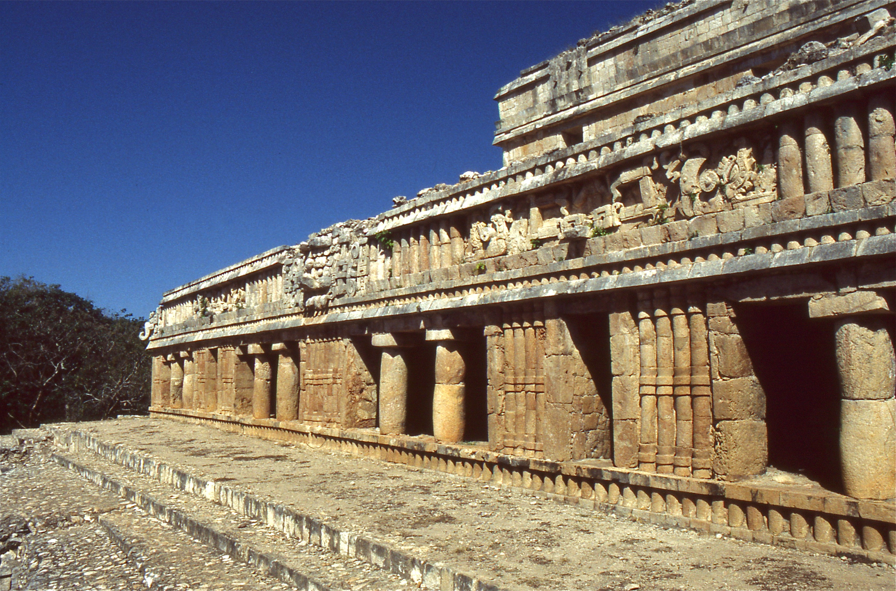 Sayil, Yucatan, MEXICO Scanned slide from 1995